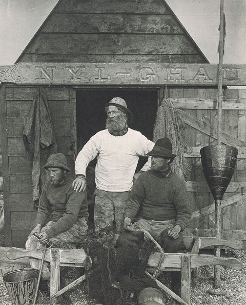 TITLE ON OBJECT: East Coast Fishermen ALBUM TITLE: "Photographs" platinum print 28.9 x 23.4 cm.